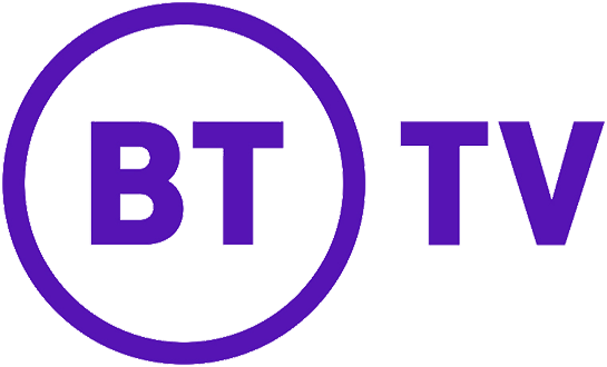 BT TV Logo used since 2019